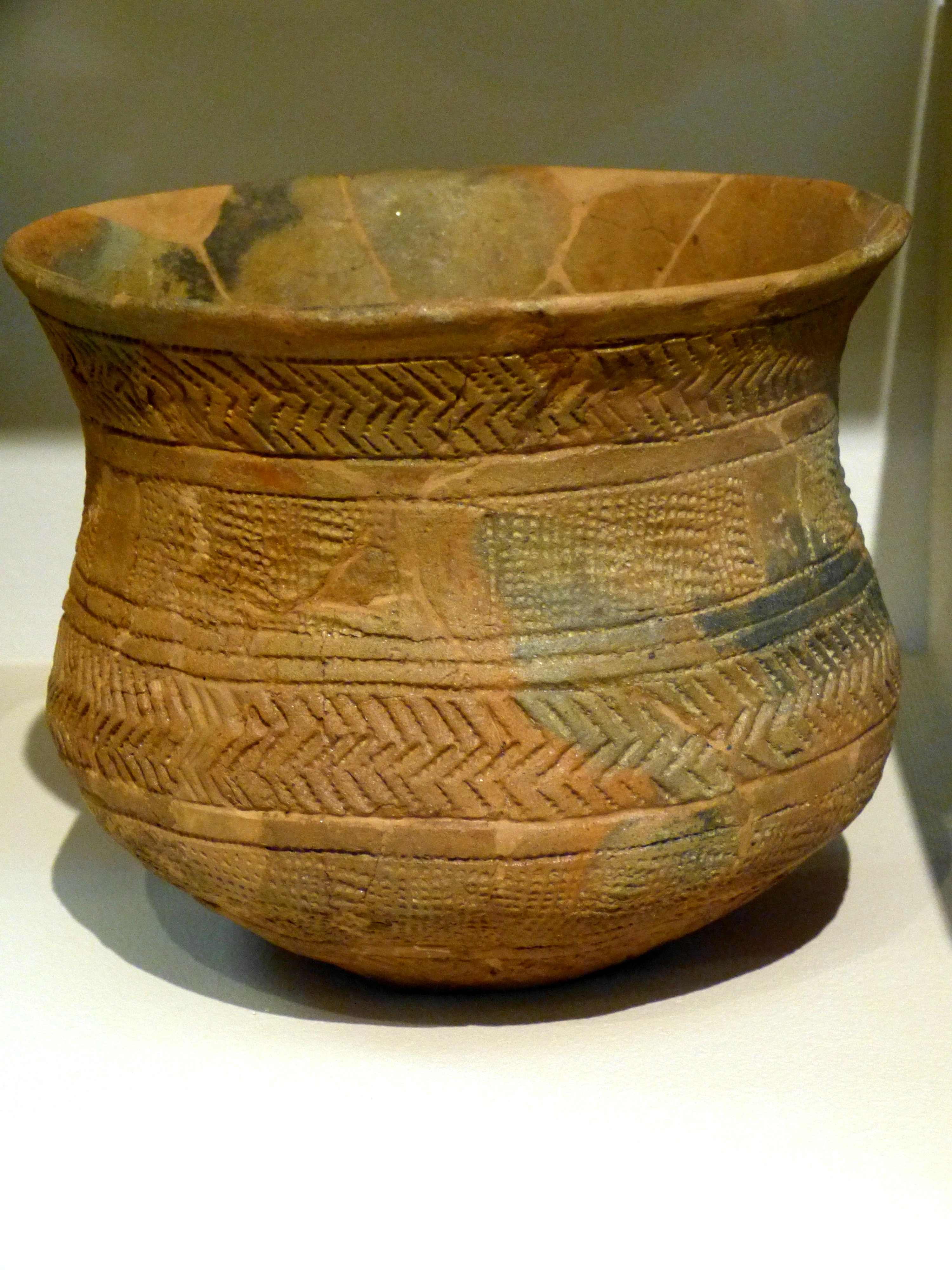 Straubing ( Lower Bavaria ). Gäubodenmuseum: Bell beaker of the Bell beaker culture, from Alburg - Hochwegfeld.